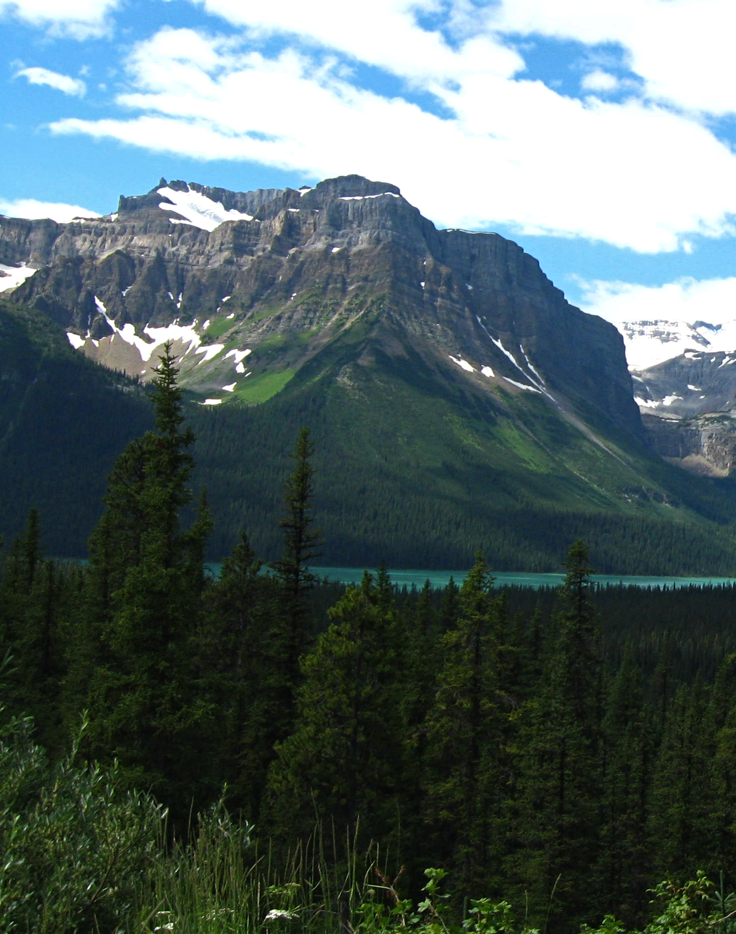 Pulpit Peak above Hector Lake. Banff National Park, Canada